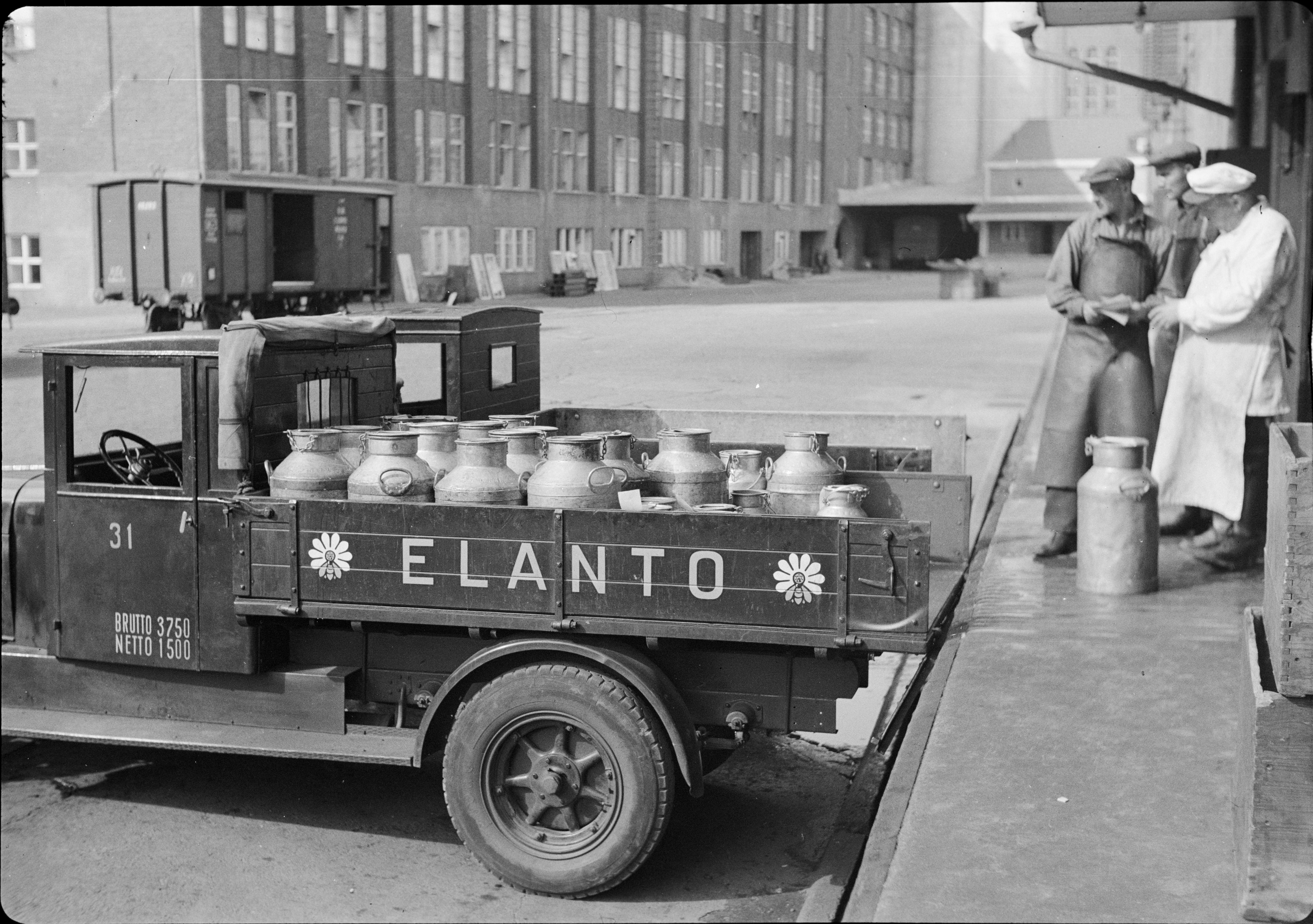 Osuusliike Elannon maitoauto ja meijerin työntekijjöitä lastauslaiturilla. Taustalla Elannon leipätehdas. photographer unknown / kuvaaja tuntematon 1920's to 1930's / 1920-1930-luku Helsinki, Uusimaa, Finland / Suomi Finnish Museum of Photography / Suomen valokuvataiteen museo